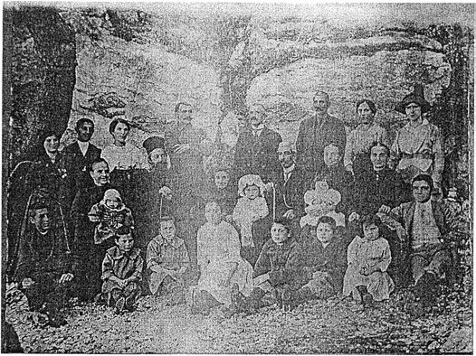 Ohrid_Families_in_1916_by_Dimitar_Mitanov